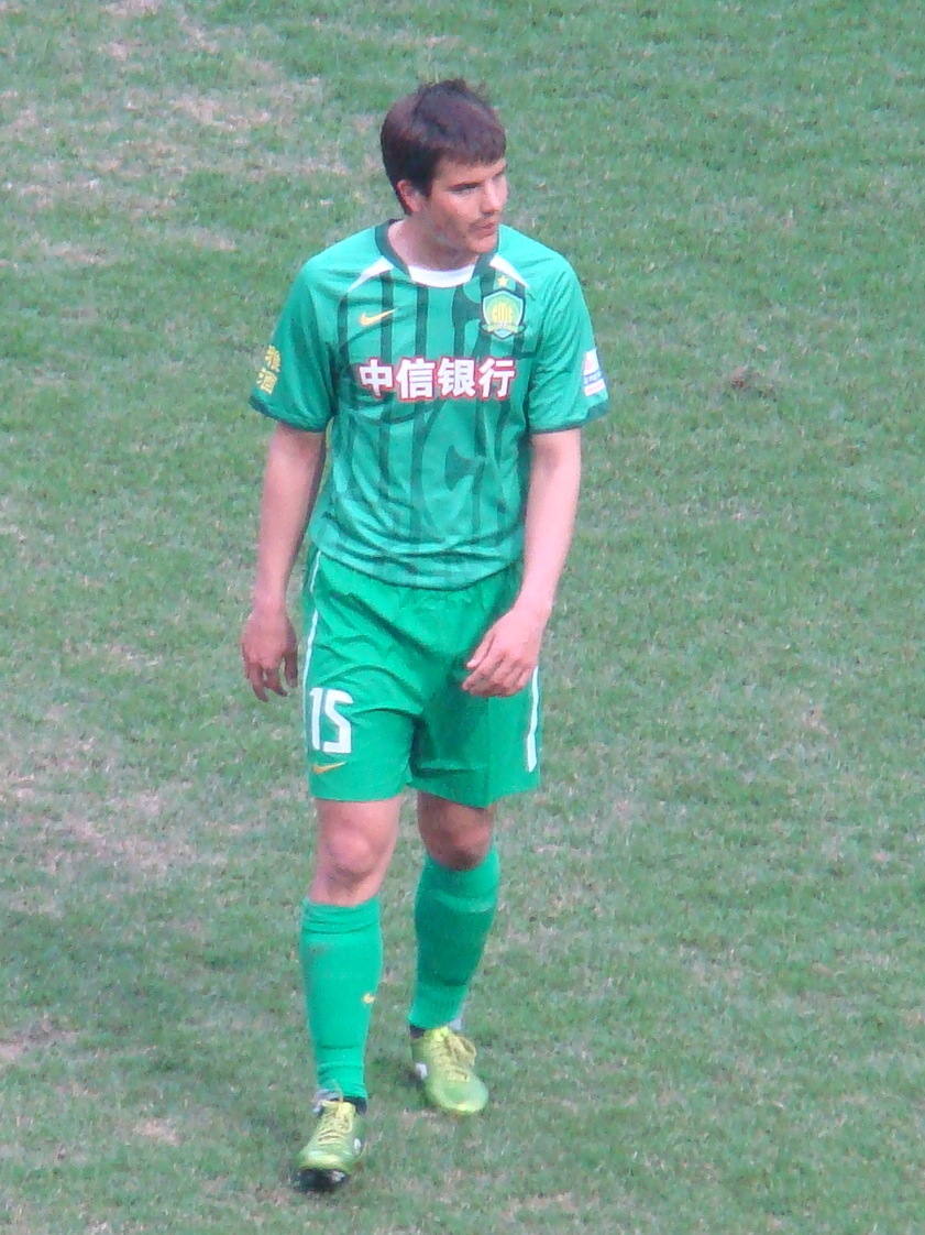 Andrija Kaluđerović played for Beijing Guoan against Guangzhou R&F in 2012 league season